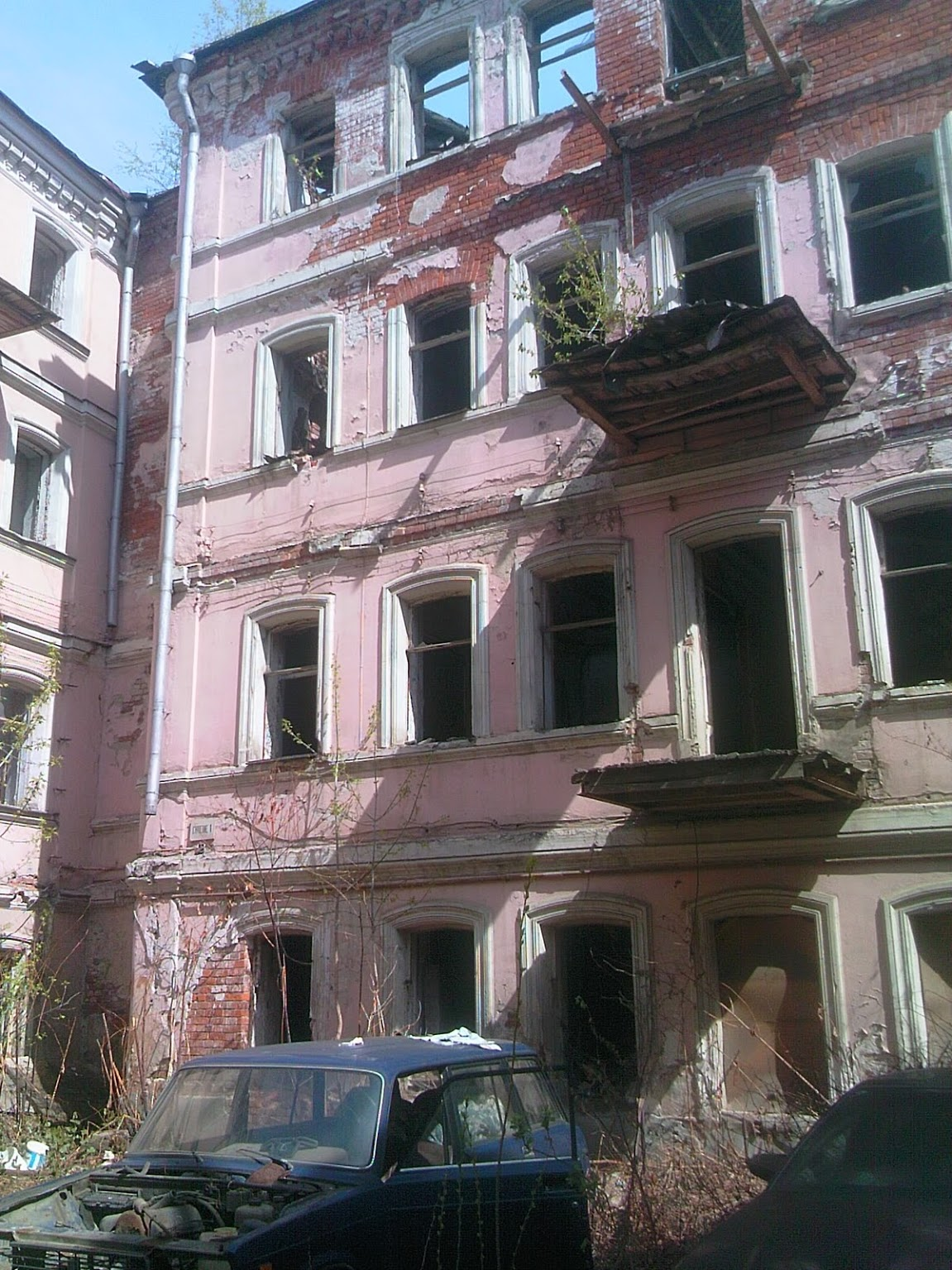 Inner court of the ruining Renquist-Gliere urban estate, 5, Petrovskiy Boulevard in Moscow